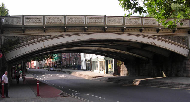 Friargate Railway Bridge Built in 1878 by Andrew Handyside and Company, an iron founder in Derby, for the Derby Friargate Line of the Great Northern Railway, to span the elegant Georgian street of Friargate. The line was part of the Derbyshire and Staffordshire extension of the Great Northern Railway. It linked Nottingham and Grantham to Burton upon Trent. The route cut through the midlands industrial city of Derby, where an impressive warehouse was constructed, large sidings, and the pretty Derby Friargate Station immediately adjacent to the bridge. The line had such an impact on Derby, Friargate and the surrounding areas that it became known as the Derby Friargate Line. The largest structure built by Handyside is said to be the largest building in the UK covered by one span of iron and glass, the 1886 National Agricultural Hall in London, now known as Olympia. In 1893 Handyside provided the structures for the Manchester Ship Canal, including the Barton swing bridge.